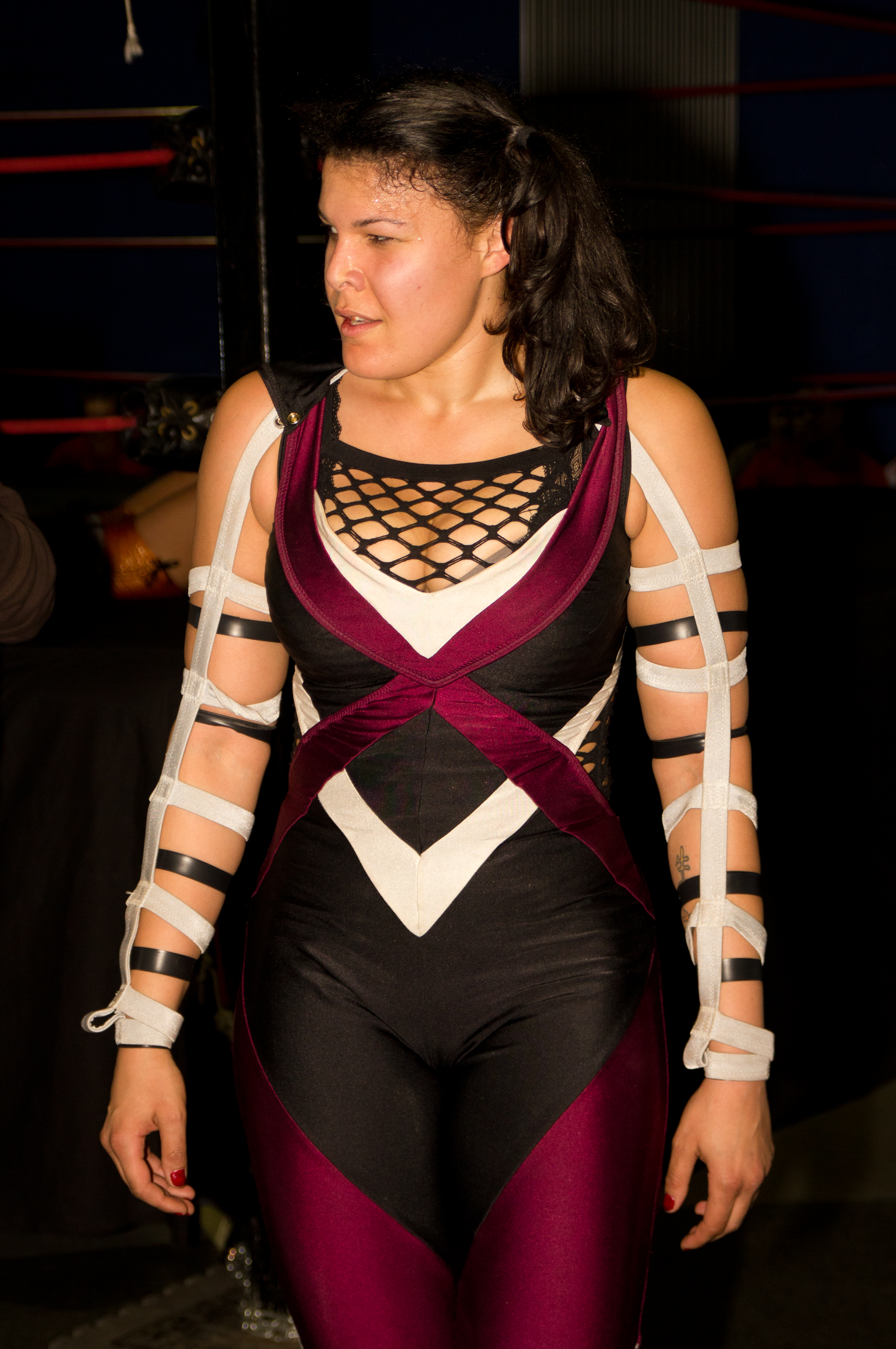 Vanessa Kraven leaving the ring after a match at Smash Wrestling in Etobicoke, ON